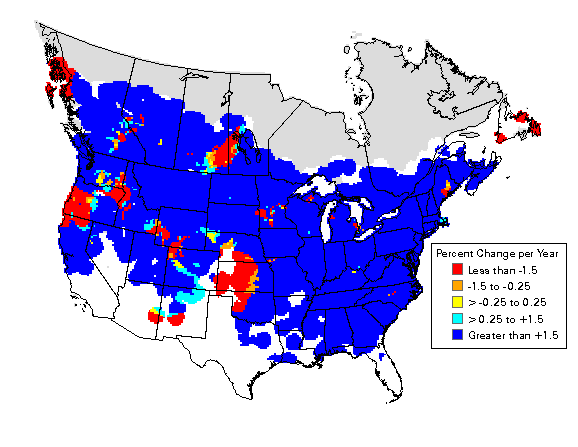 Trend map of Canada goose Branta canadaensis between 1966-2003 Sauer, J. R., J. E. Hines, and J. Fallon. 2007. The North American Breeding Bird Survey, Results and Analysis 1966 - 2006. Version 10.13.2007. USGS Patuxent Wildlife Research Center, Laurel, MD